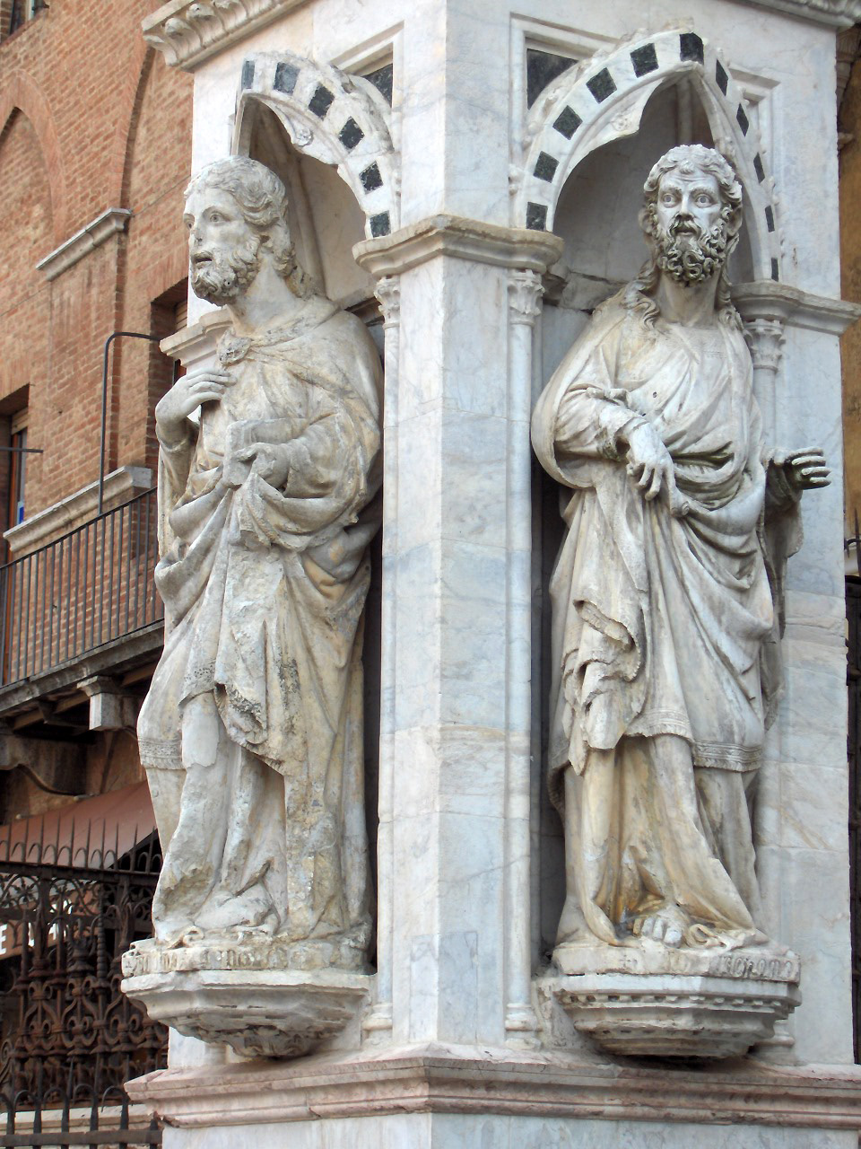 Statues on the loggia of the Torre dell Mangia; Siena, Italy Own photo - photo made by Georges Jansoone on 11 October 2005